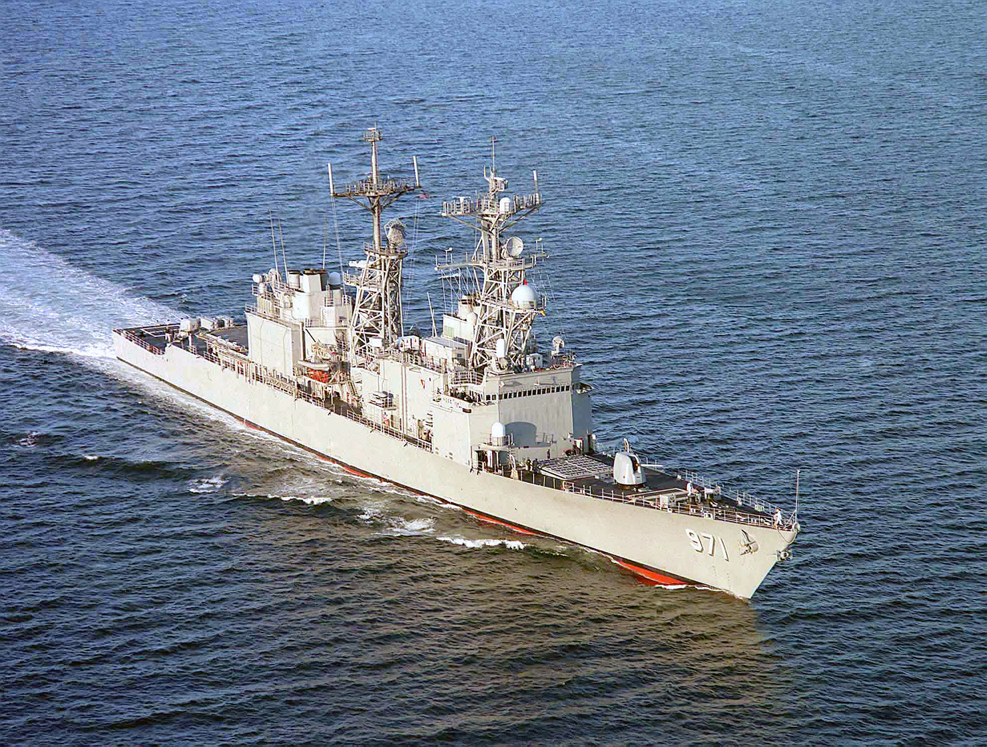 The Destroyer USS DAVID R. RAY (DD 971) (Spruance class), in the Pacific Northwest during the People's Republic of China "Goodwill Cruise 2000."